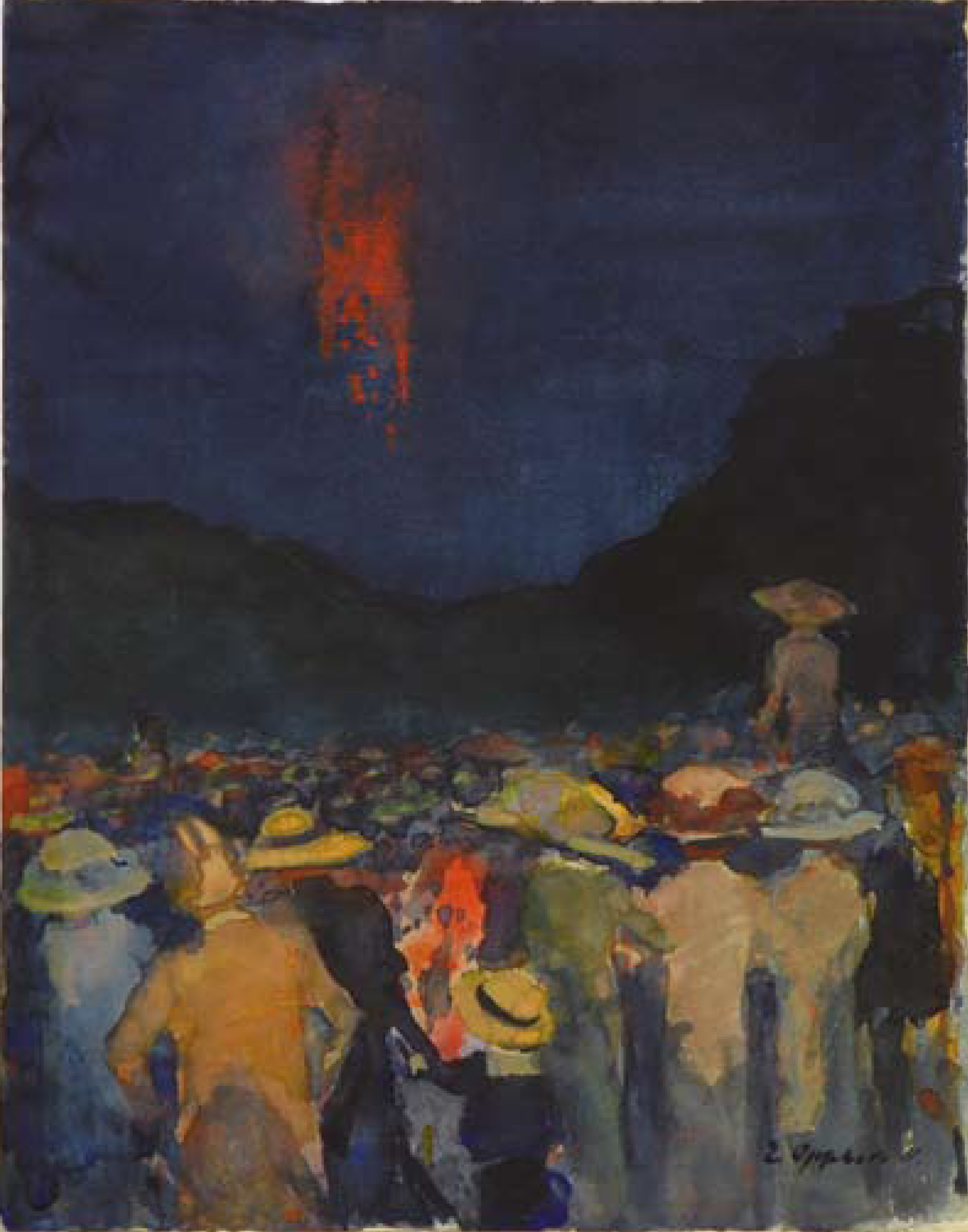 „Fireworks” Watercolour on wove paper, 24 x 18,9 cm, signed and dated lower right: E Oppler 11